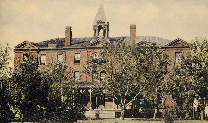 Bacone Indian University (now Bacone College), Muskogee, Oklahoma; from a c. 1910 postcard published by the Robertson Studio for Orton & Howe, Jewelers, Muskogee, Oklahoma. This shows Rockefeller Hall, known as "Old Rock," completed in 1885 and razed in 1938.